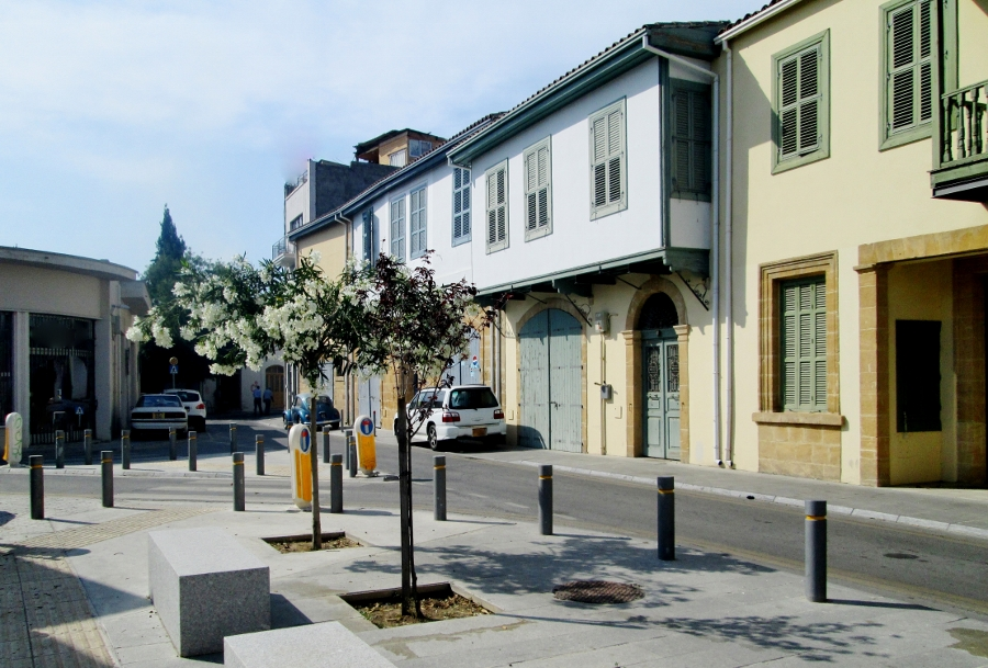 Taktakala Nicosia Republic of Cyprus